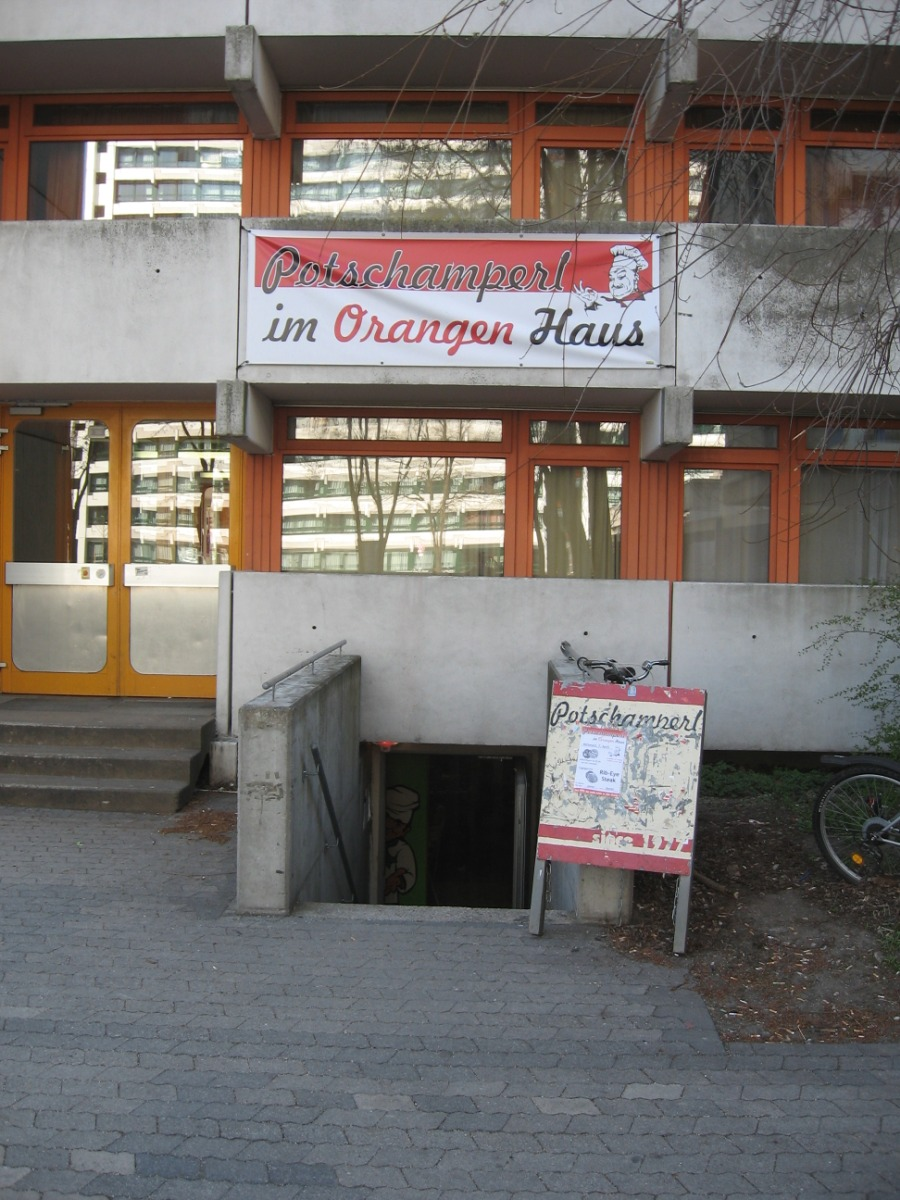 Studentenstadt Freimann in Munich